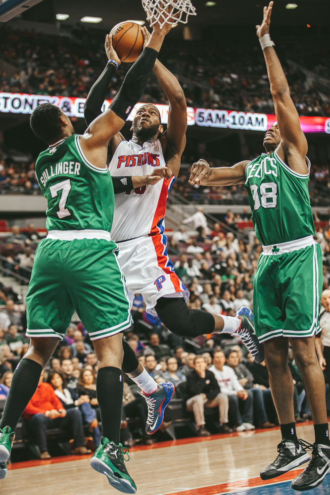 detroit pistons v. boston celtics 1/20/13